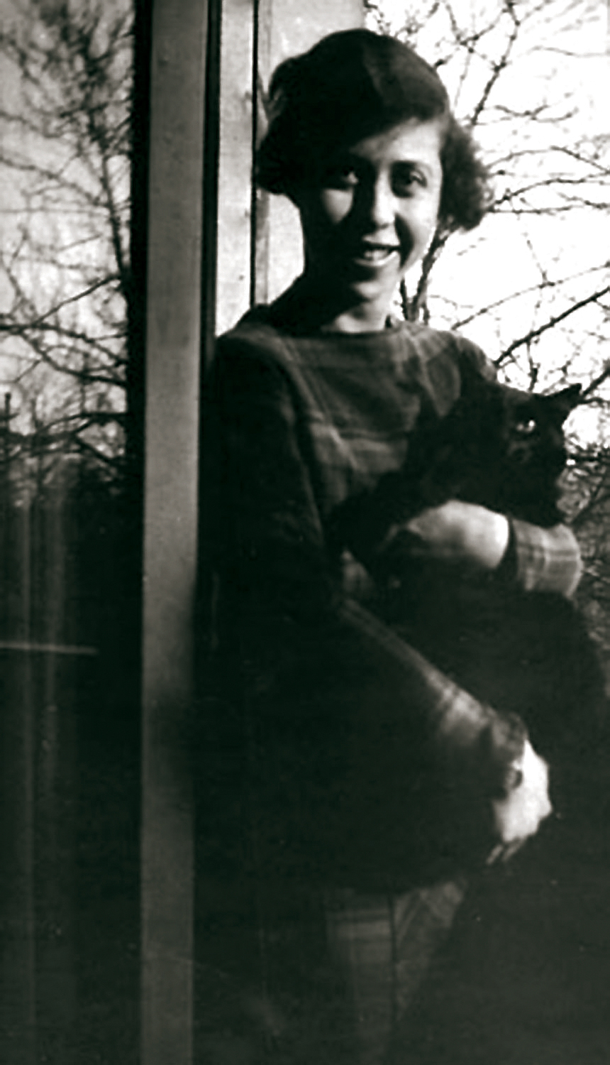 Irène Némirovsky at the age of 25 years old